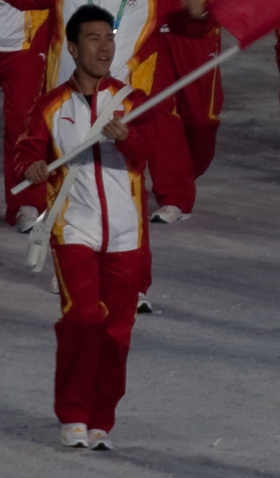 The athletes from China entering the stadium at the opening ceremonies of the 2010 Winter Olympics